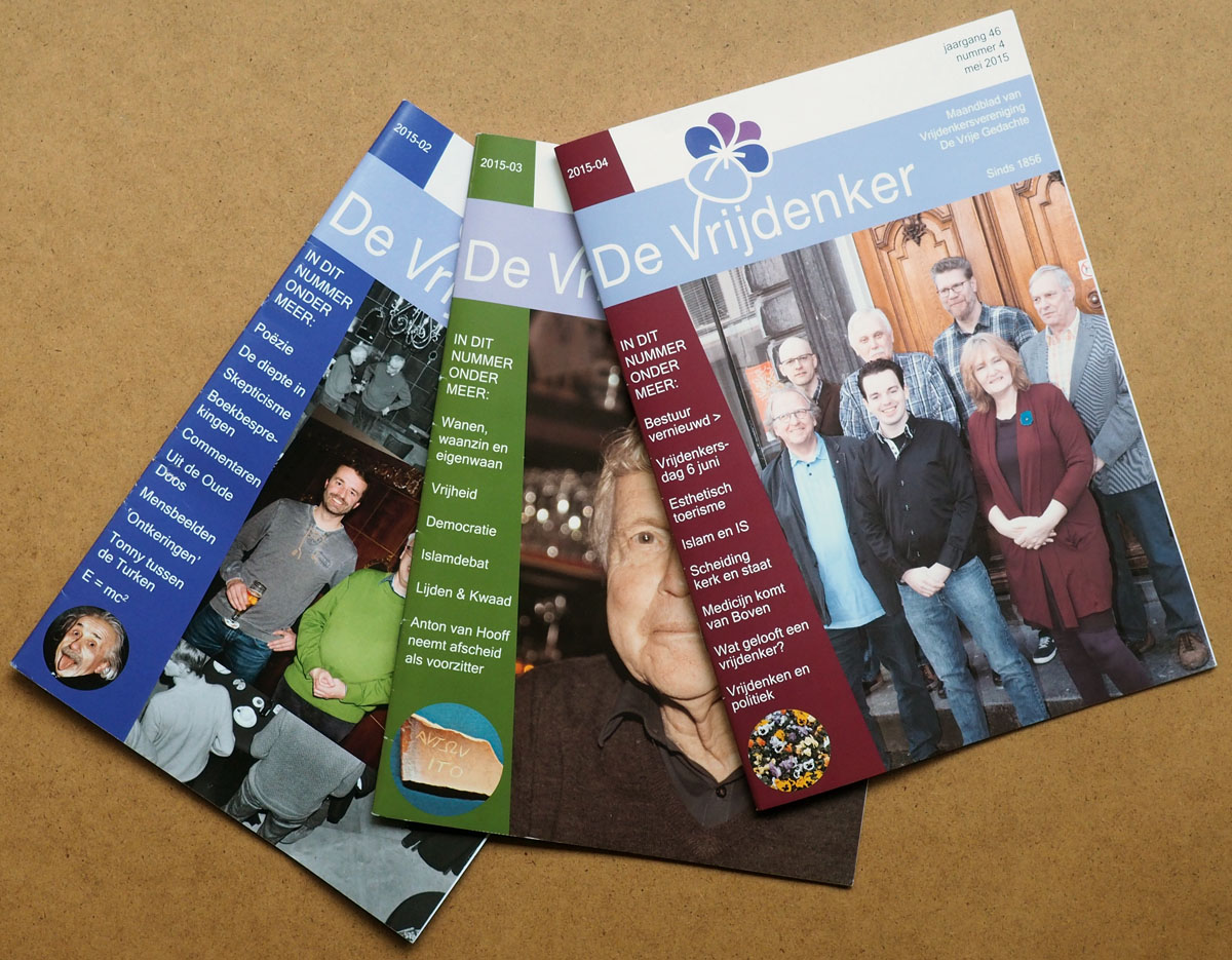 Three editions of the Dutch monthly magazine 'De Vrijdenker' (The Freethinker)